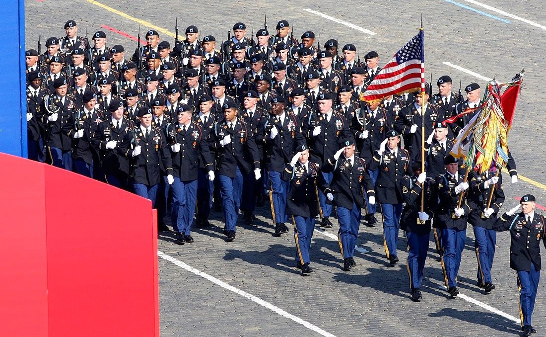 Military parade dedicated to the 65-year anniversary of Victory in Great Patriotic War.